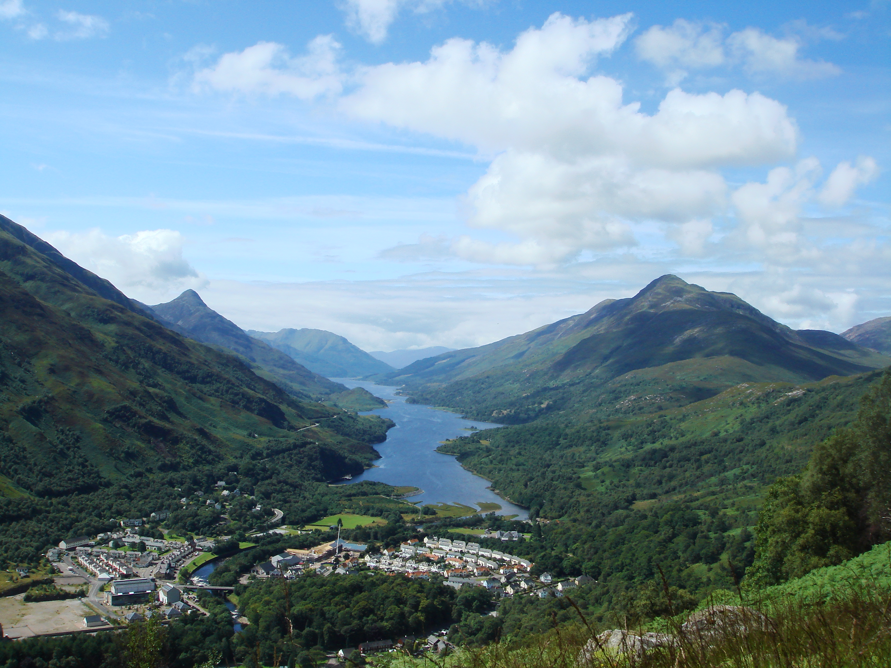 A hillside view of Kinlochleven, a village in the Highlands of Scotland.